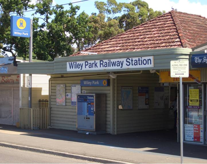 Wiley Park Railway Station